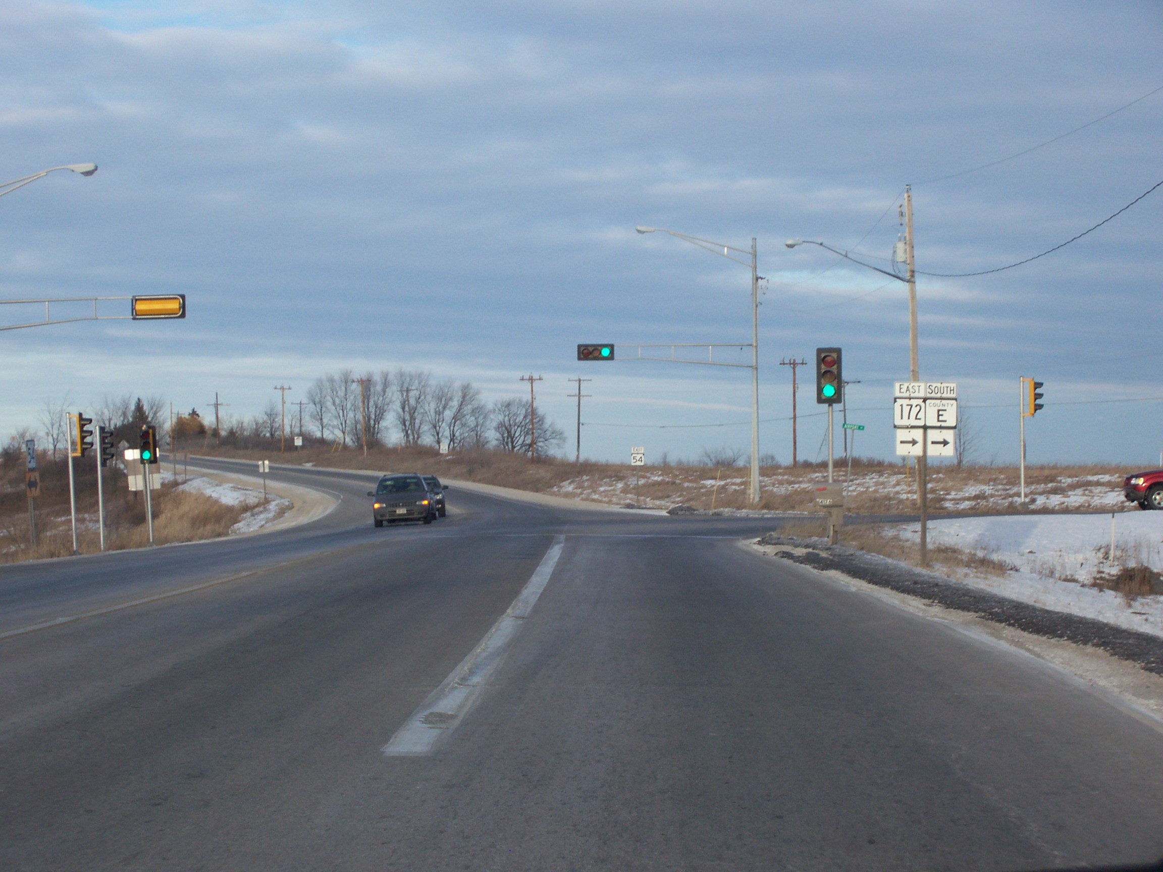 Category:Images of Wisconsin highways (Original text: The west terminus of Wisconsin Highway 172 at its intersection with Wisconsin Highway 54 in Hobart, Wisconsin, USA.)